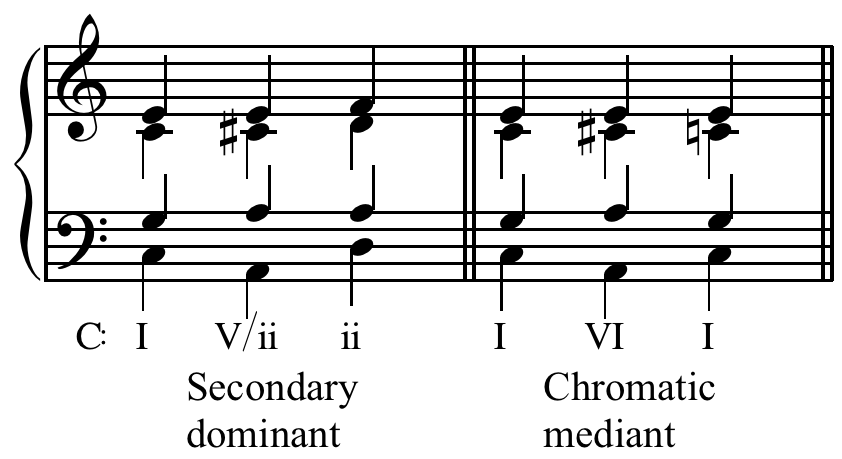 Secondary dominant (V/ii resolving to ii) vs. chromatic mediant (VI progressing to I). Created by Hyacinth (talk) 06:15, 7 December 2010 using Sibelius 5.